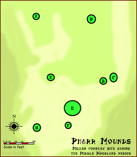 A diagram of the Pharr Mounds site, a Middle Woodland period archaeological site in northeastern MIssissippi, USA built between 1 and 200 CE.